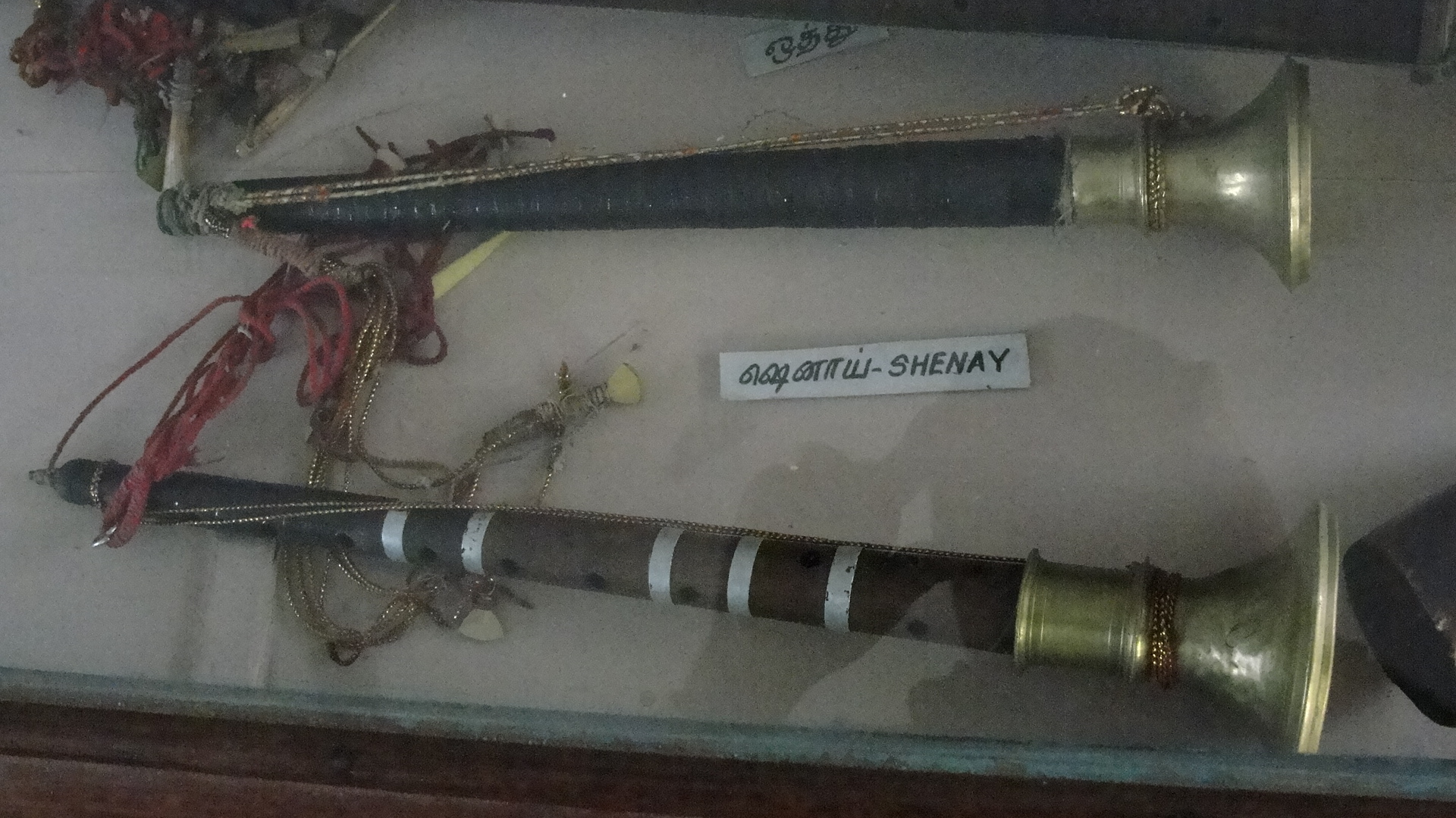 A closeup of Shenay (a musical instrument)